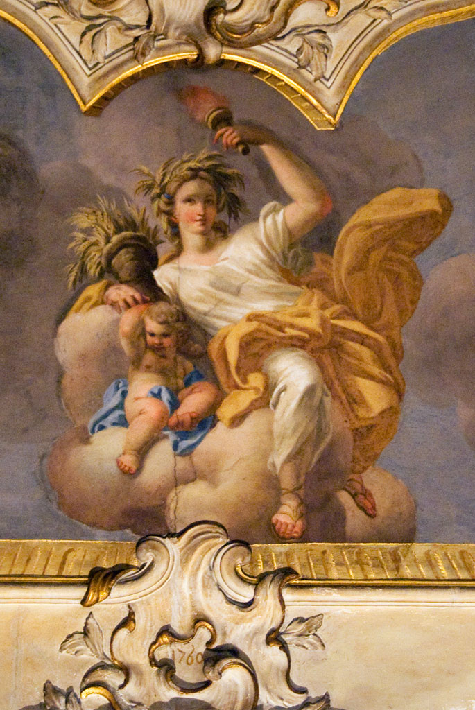 The Four Seasons, detail view of Summer, personified by the goddess Ceres.